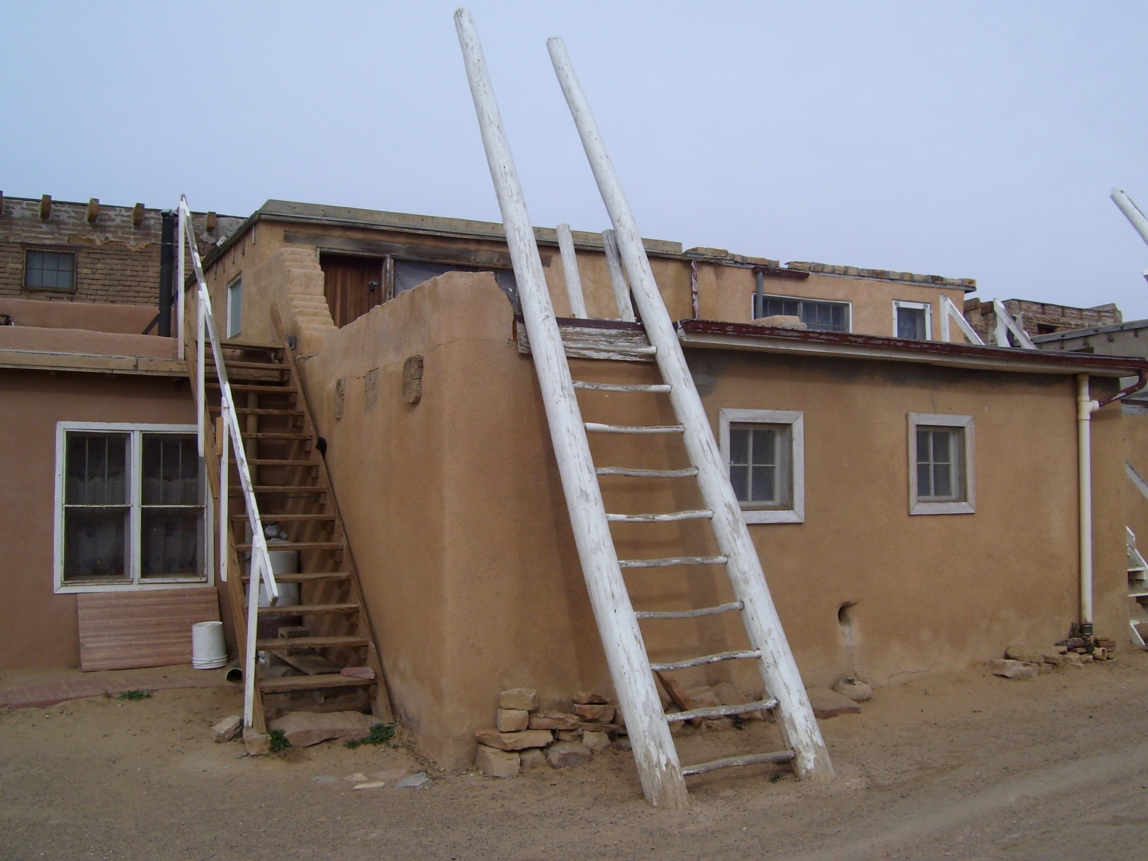 Painted ladder leading to the entrance of a kiva in the Sky City of Acoma Pueblo.